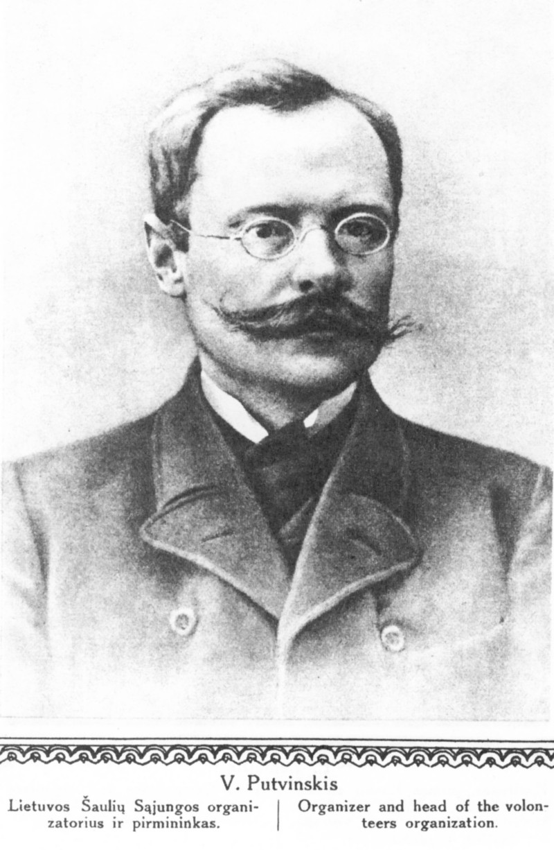 Vladas Putvinskis, Lithuanian writer